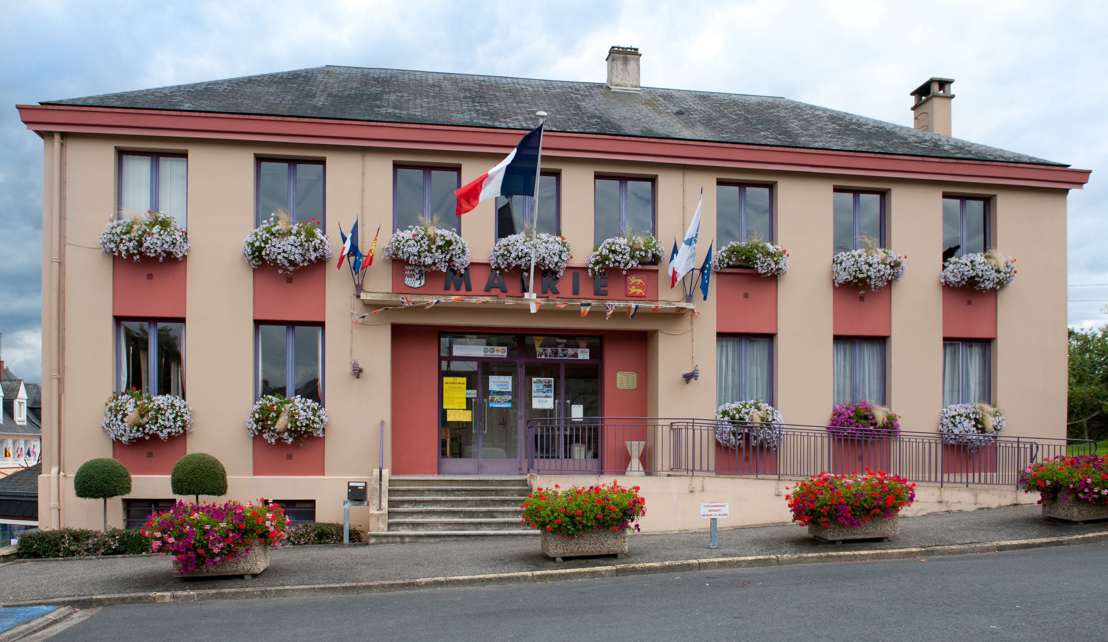 the city hall of Dozulé